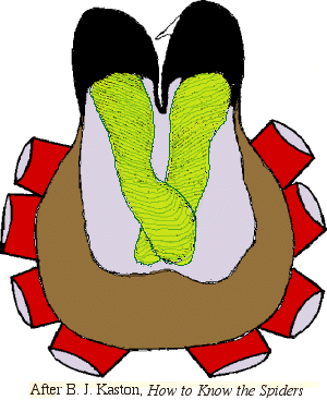 Produced by Patrick Edwin Moran. After B.J. Kaston, How to Know the Spiders. This drawing shows the cephalothorax and the chelicerae from the top, with the cephalothorax cut away to show the system of glands and muscles within that produce and expel the spider's venom.